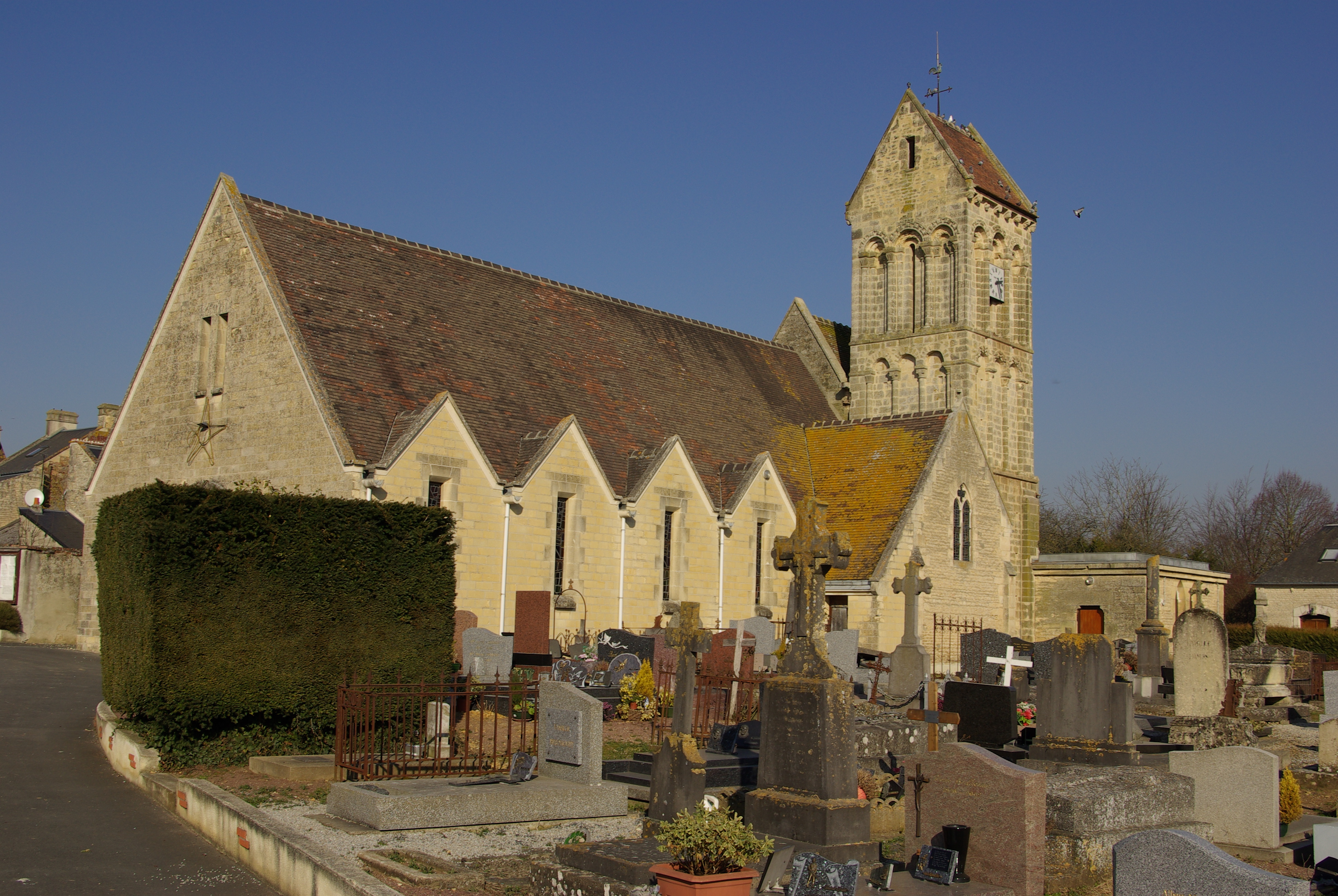 Church St Hermès of Fontenay-le-Marmion (Calvados, France)